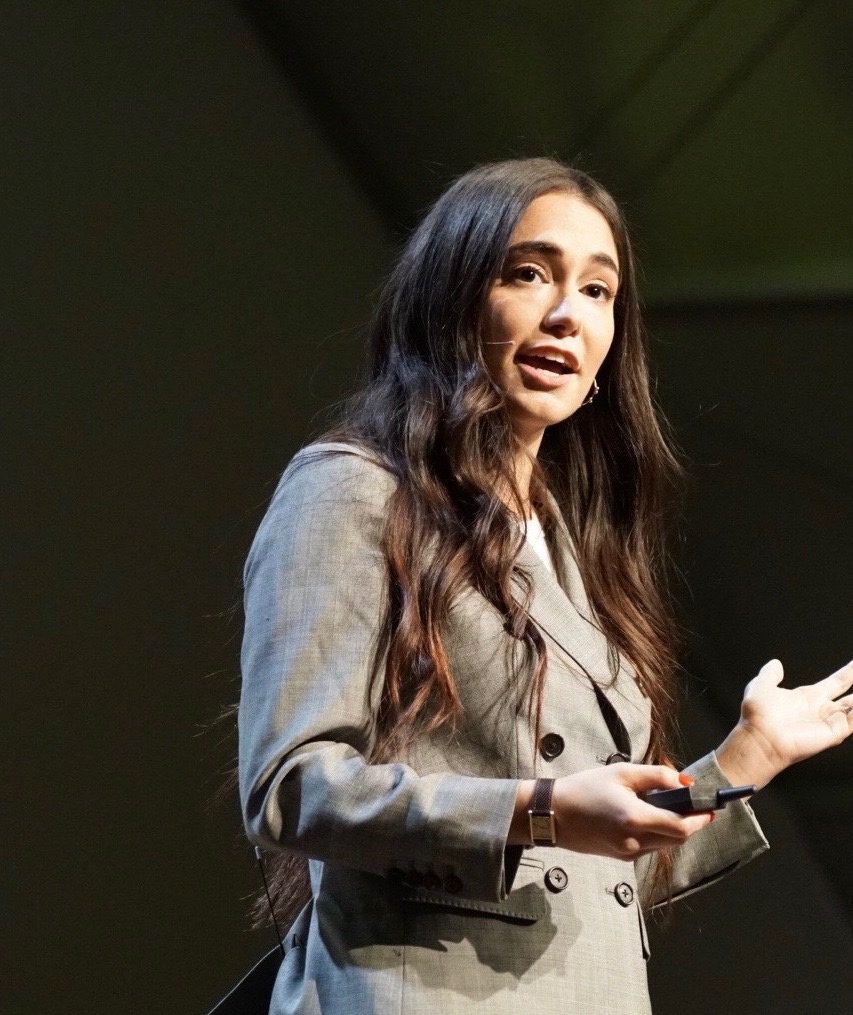 Businesswoman Audrey Gelman speaking at the 2019 Upfront Ventures Summit